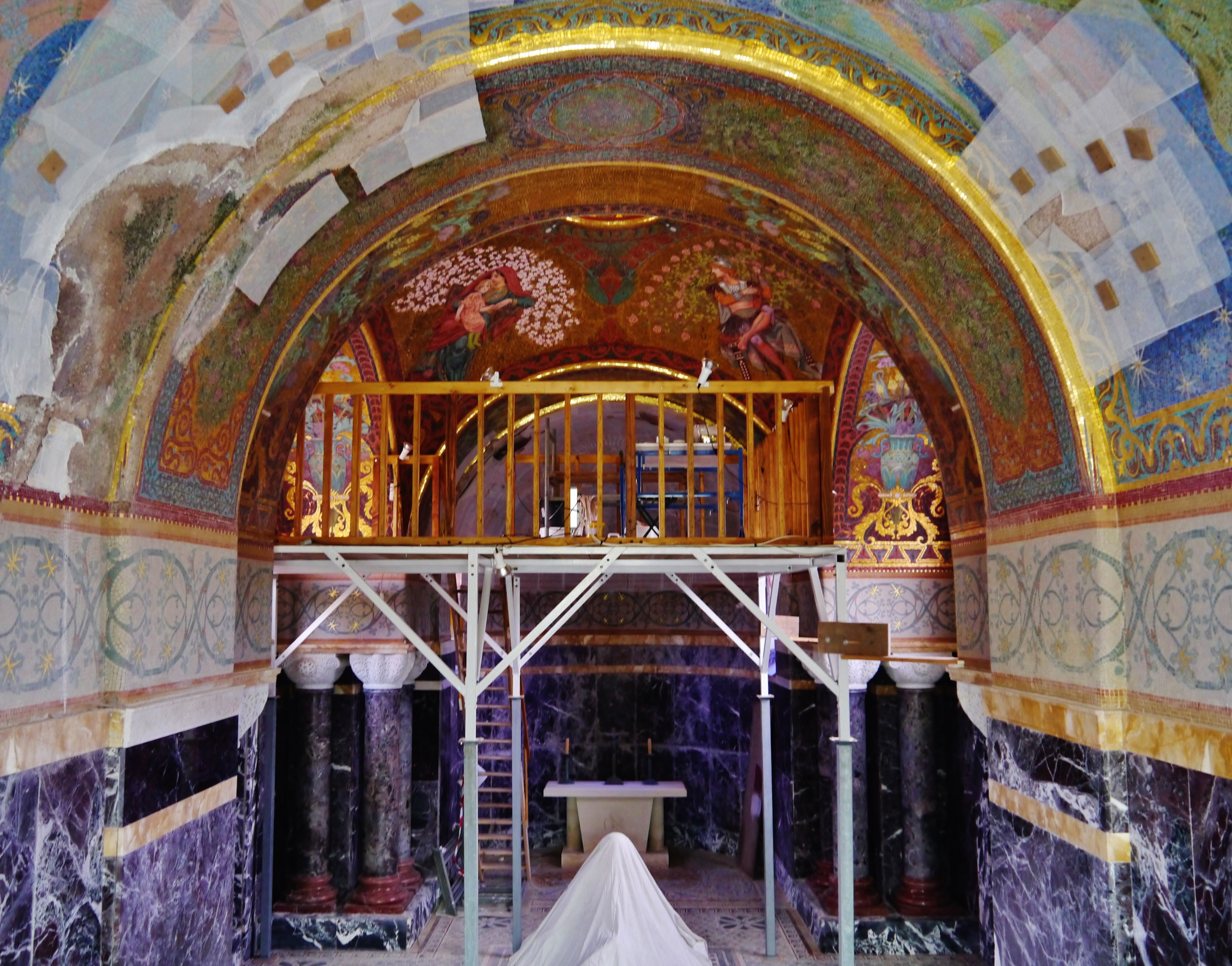 Interior of the Mausoleum, Bourgogne, Département of Marne, Region of Grand East (former Champagne-Ardenne), France